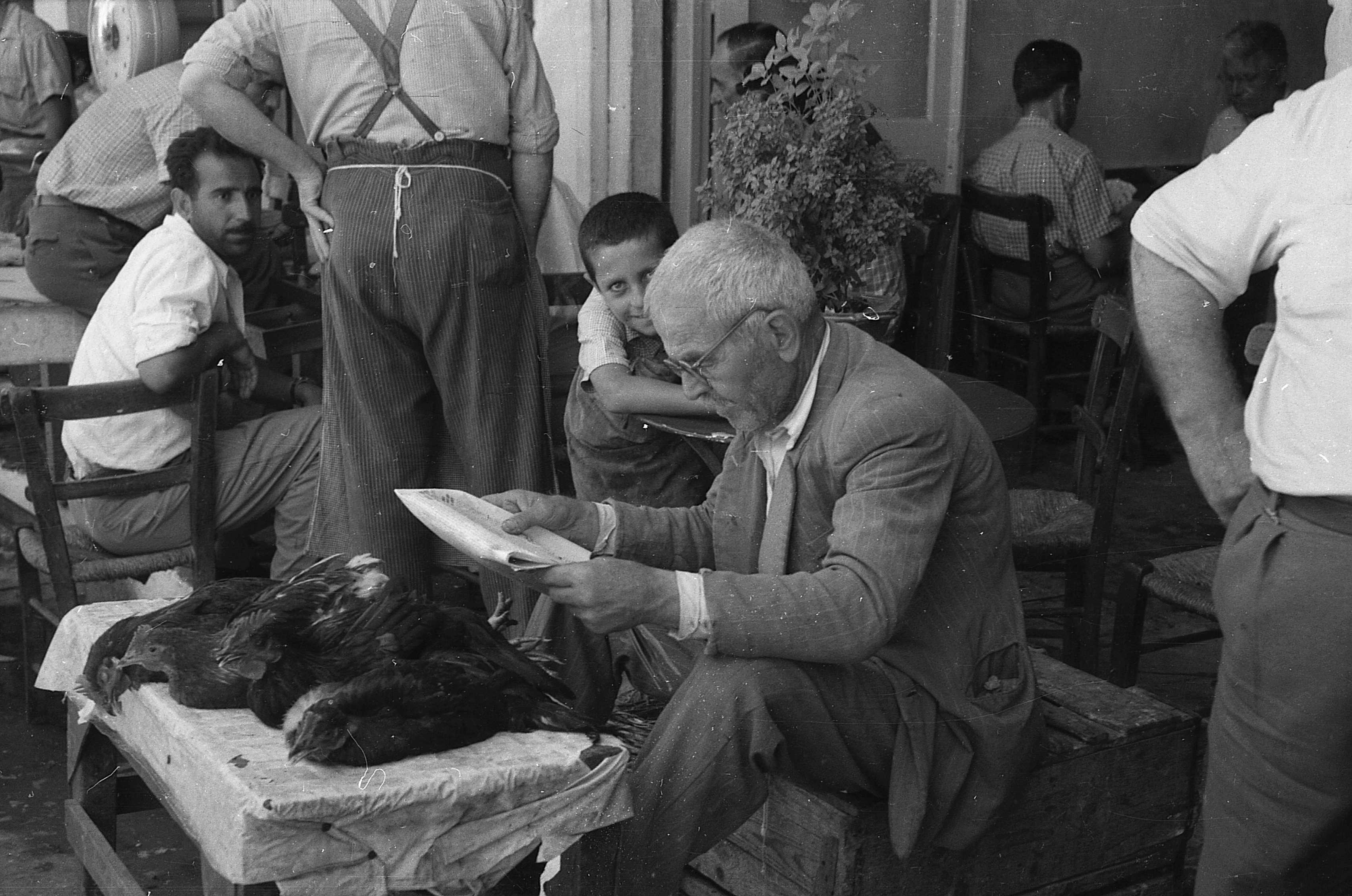 Location: Greece, Heraklion